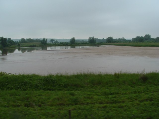 Quicksand! Settlement lagoon that takes waste from the nearby concrete factory close to Thurgarton, Notts. It is startling to see how this man made 'delta' spreads across the former gravel pit and the wetland flora takes root in the marshy surface.